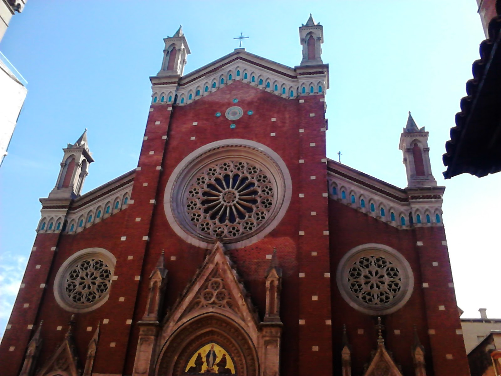 St. Antonius, Istanbul